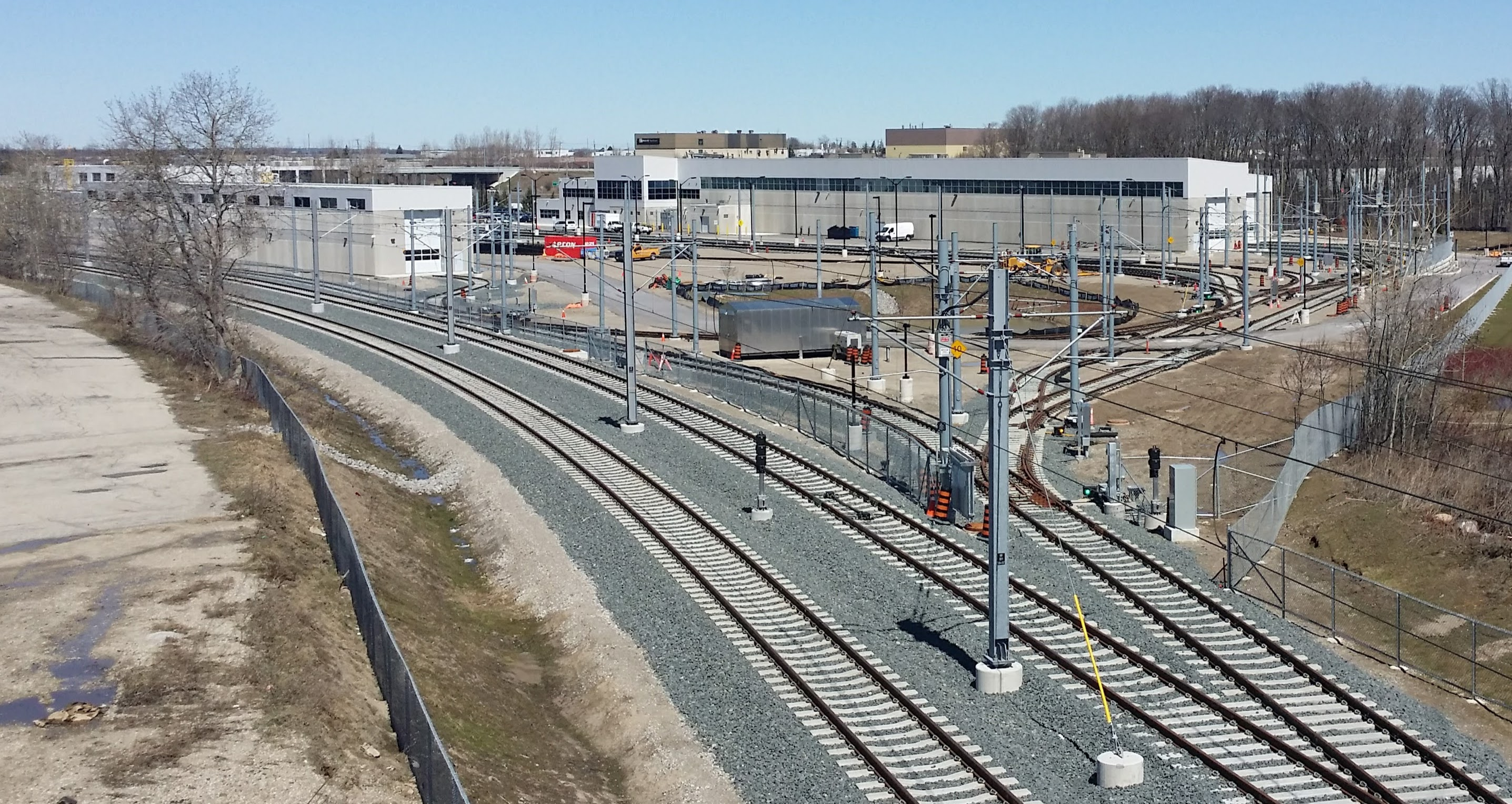 The Operations, Maintenance and Storage Facility (OMSF) for the Ion rapid transit LRT system. Photographed from Weber Street, Waterloo, Ontario.